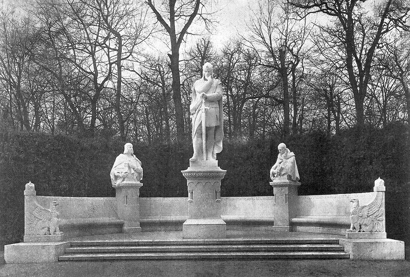 Monument group № 3 in the former Siegesallee in Berlin. The central monument commemorates Otto II (ca. 1147-1205), third margrave of Brandenburg and grandson of Albert the Bear. The bust on the left commemorates the knight Baron Johann Gans zu Putlitz; the bust on the right Heinrich von Antwerpen, cathedral canon and chronicler of the March of Brandenburg. Sculptor: Joseph Uphues. The monument was unveiled on 22 March 1898.